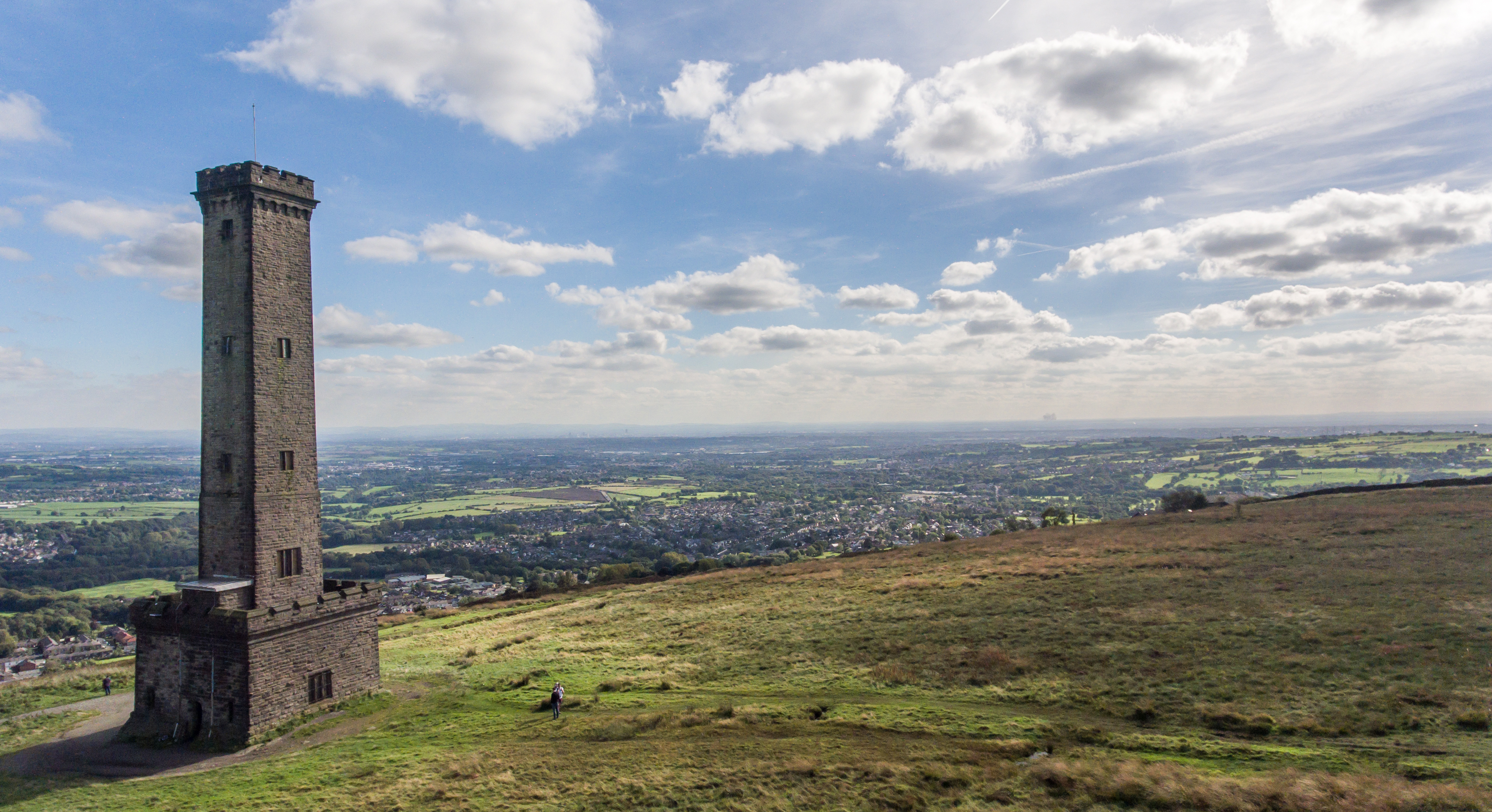 Peel Monument Wikidata has entry Q7160235 with data related to this item.